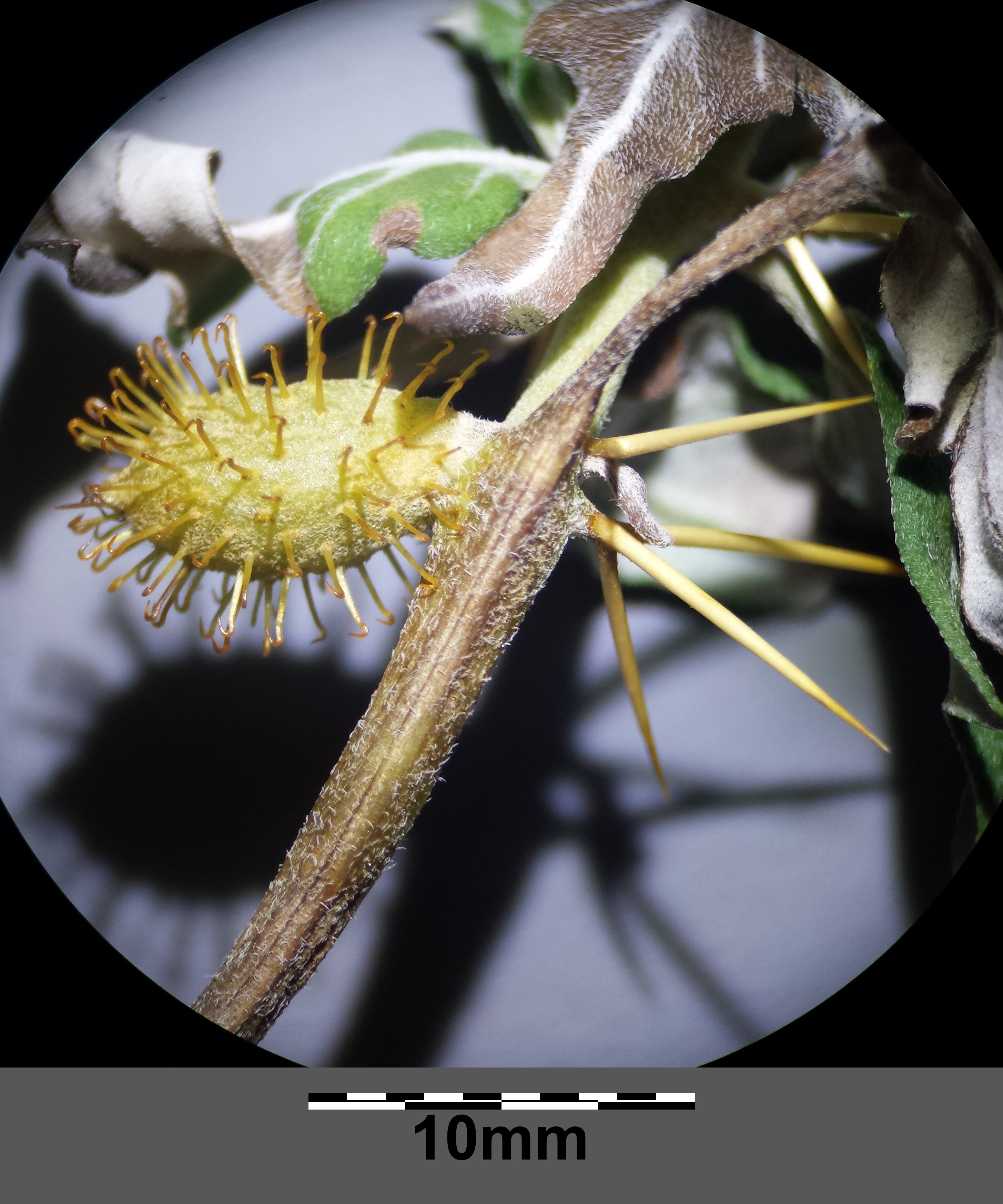 Stem with spines and ♀ capitulum Taxonym: Xanthium spinosum ss Fischer et al. EfÖLS 2008 ISBN 978-3-85474-187-9 Location: 0,7 km nordöstlich von Roseldorf, district Korneuburg, Lower Austria - 240 m a.s.l. Habitat: field of potatoes